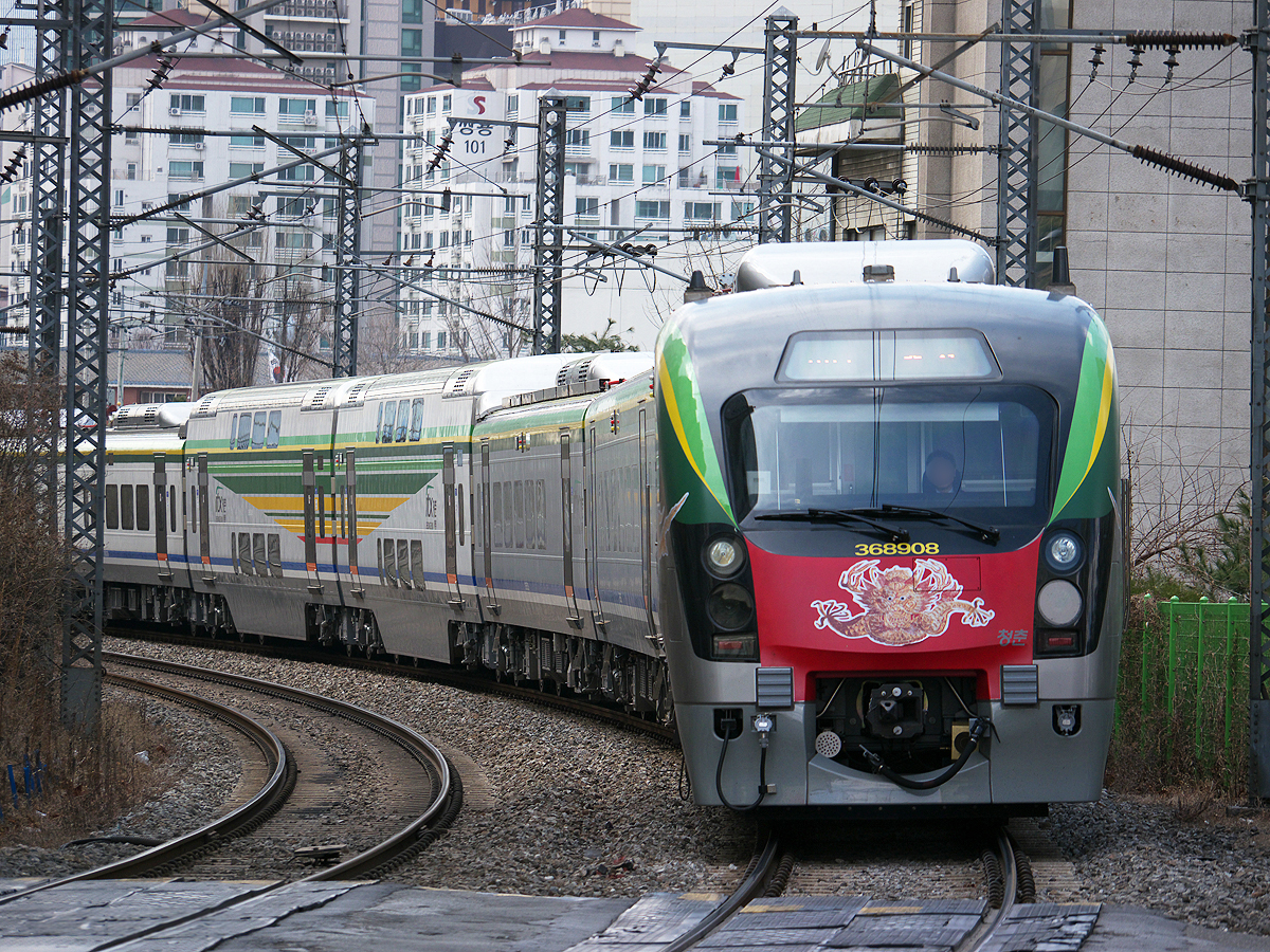 KORAIL 368000series EMU for 'ITX-Cheongchun'. ITX mean Intercity Train eXpress. The special paint with 8th train set.